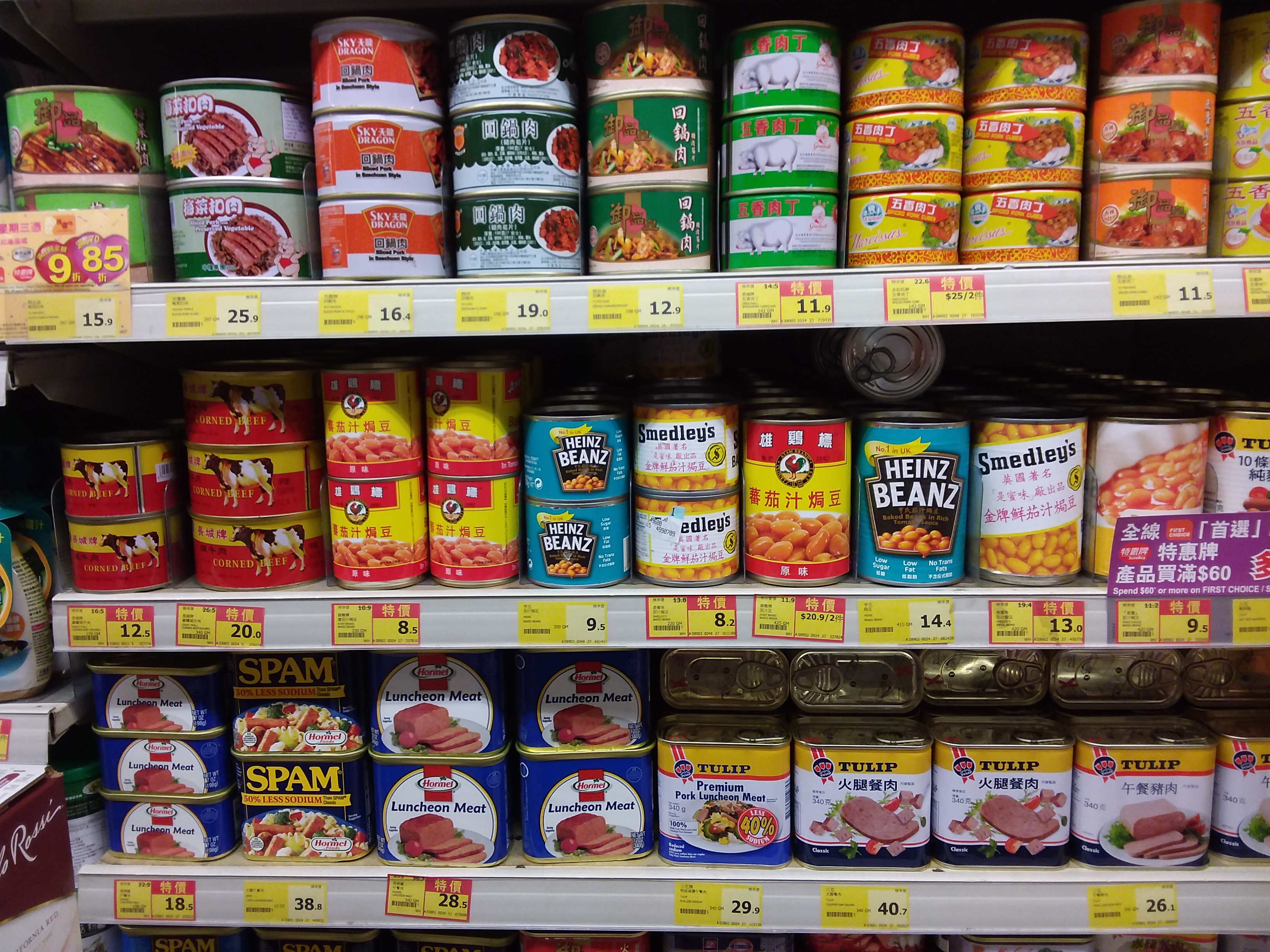 HK Sheung Wan 上環 皇后大道西 Queen's Road West 百匯商場 Broadway Plaza 惠康超級市場 Wellcome supermarket in July 2019